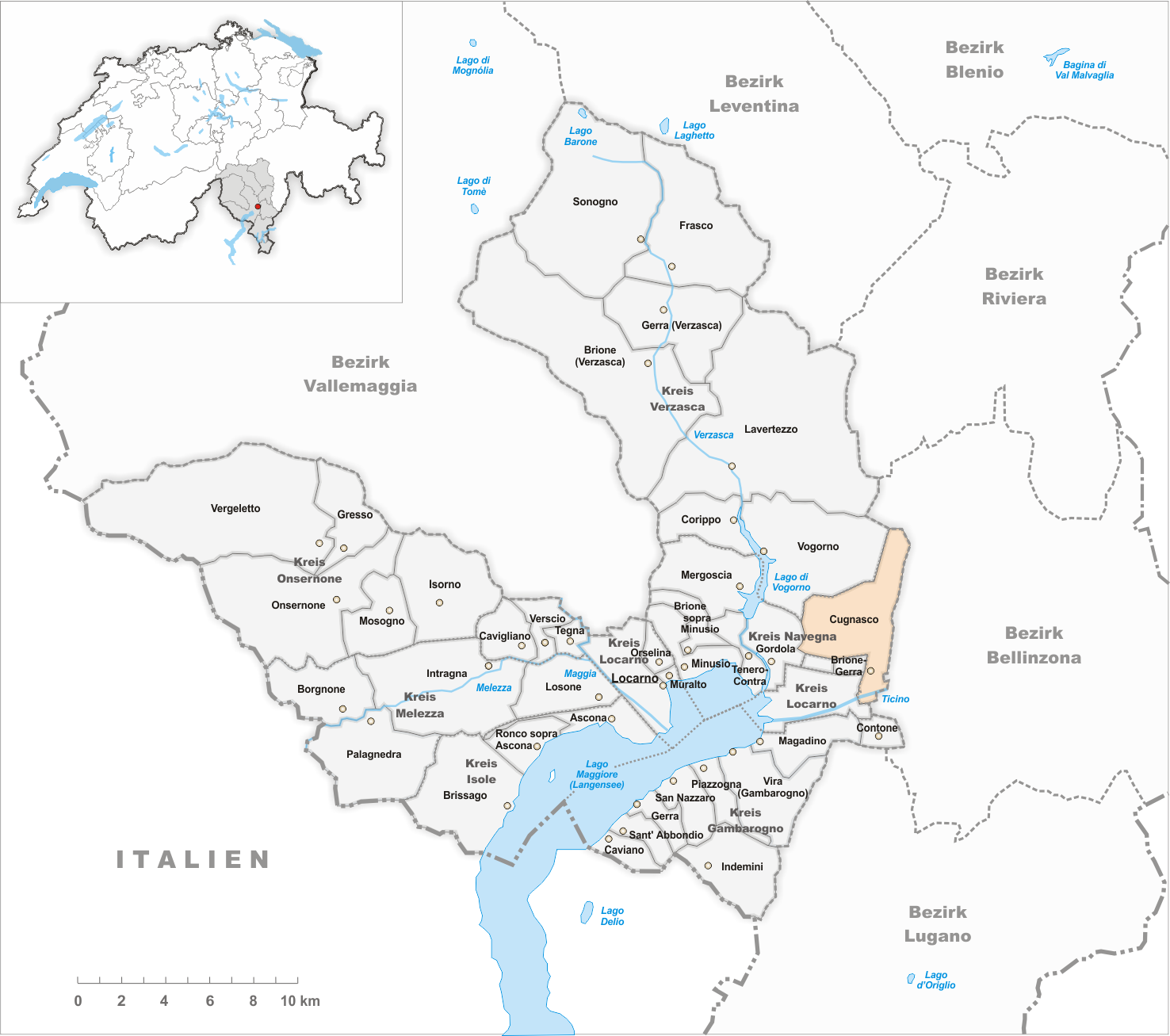 Municipality Cugnasco